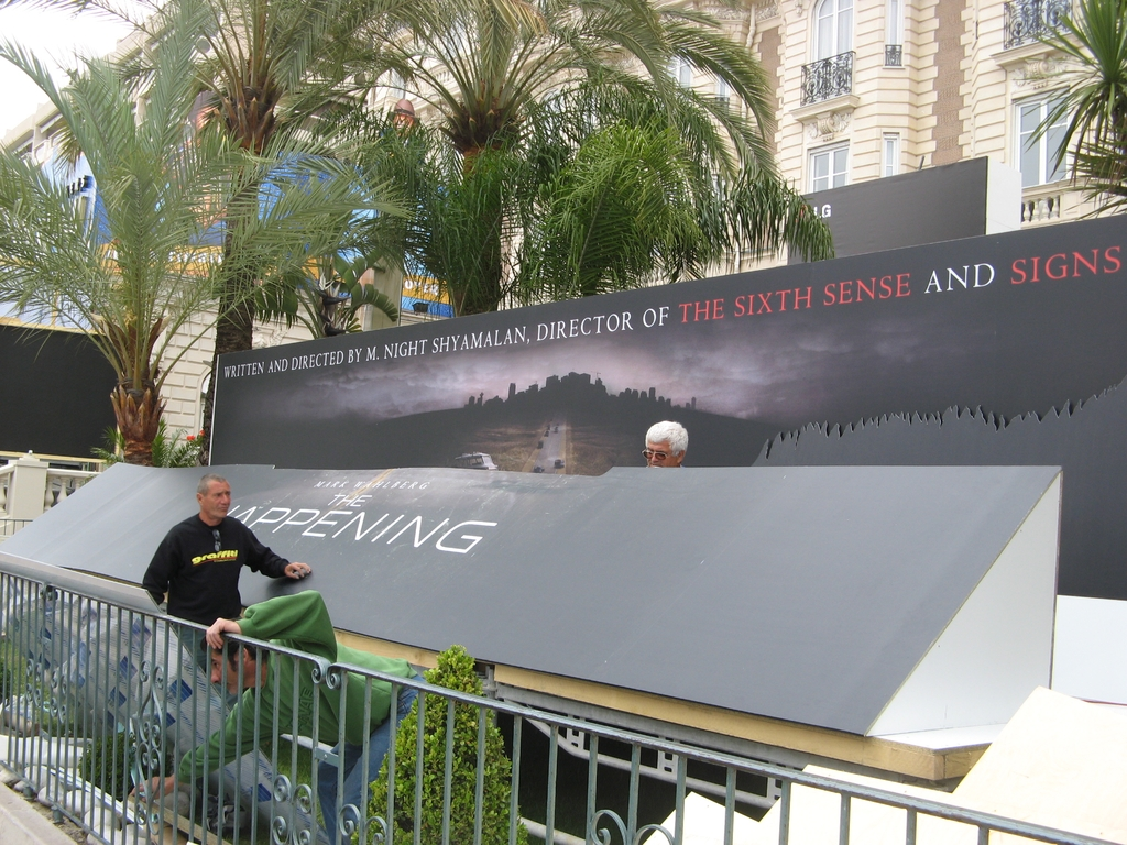 An advertising for The Happening at Cannes Film Festival.